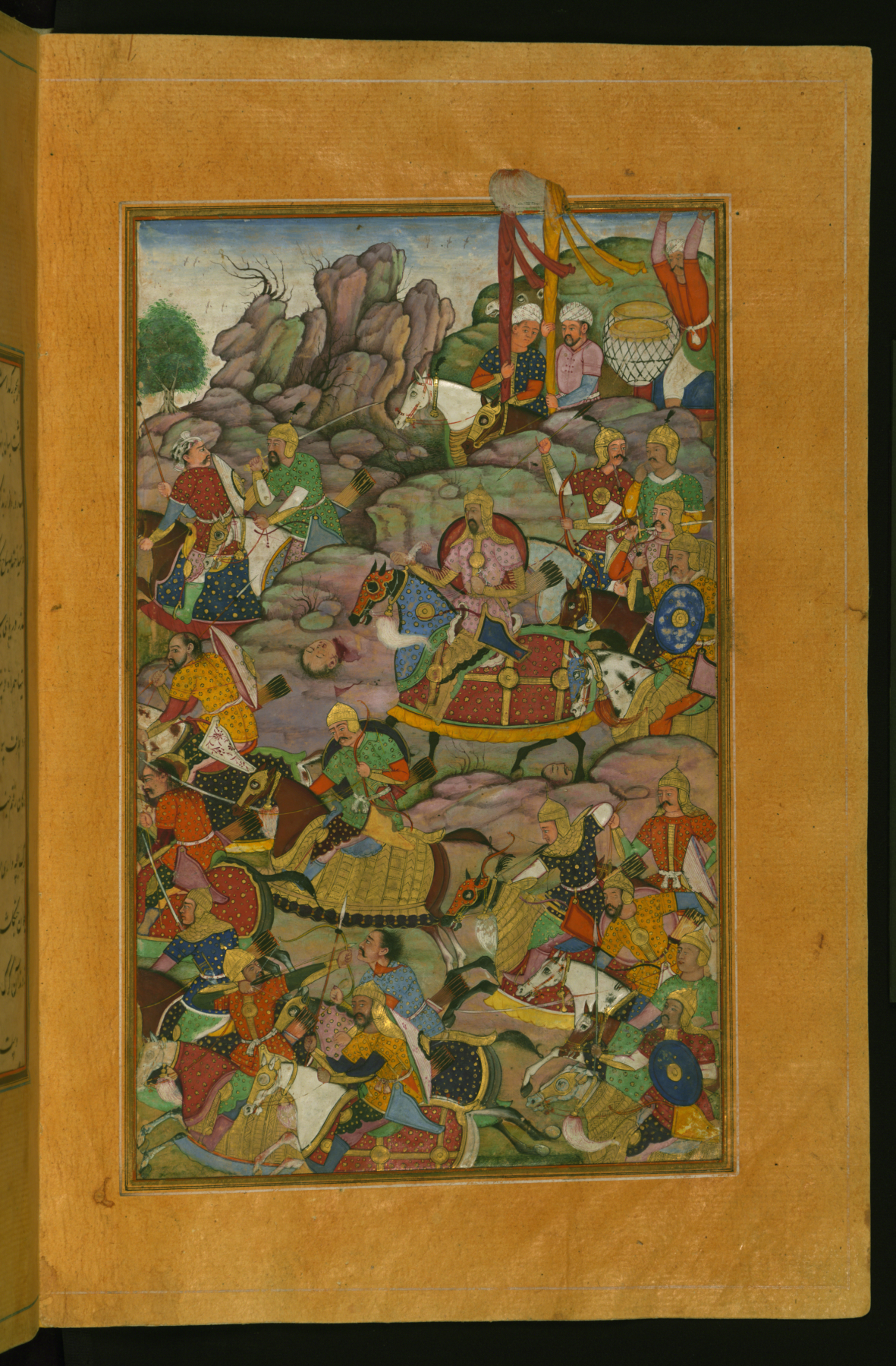 This folio from Walters manuscript W.596 depicts the final phase of the battle of Kandahar on the side of the Murghan mountain.